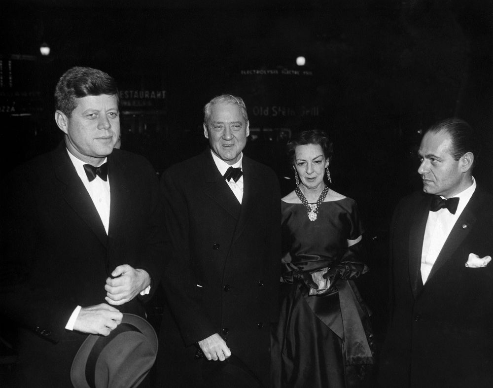 President John F. Kennedy arrives at the Dupont Theater in Washington, D.C. to view the Bengali film "The World of Apu," directed by Satyajit Ray. (L-R) President Kennedy; Former United States Ambassador to India Senator John Sherman Cooper of Kentucky; Senator Cooper's wife Lorraine Cooper; manager of the Dupont Theater Gerald G. Wagner.